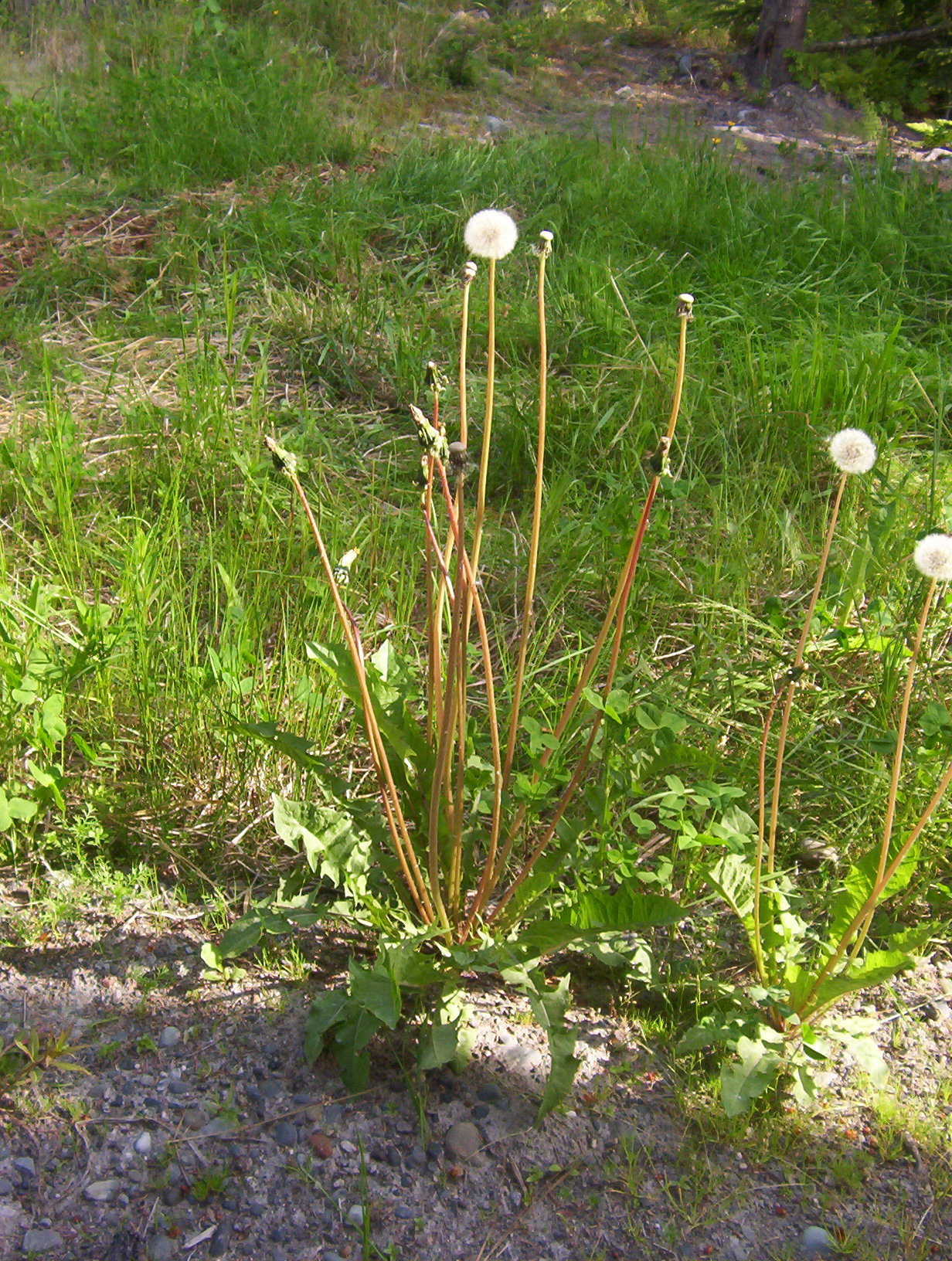 an 85 cm high dandelion in the seed phase